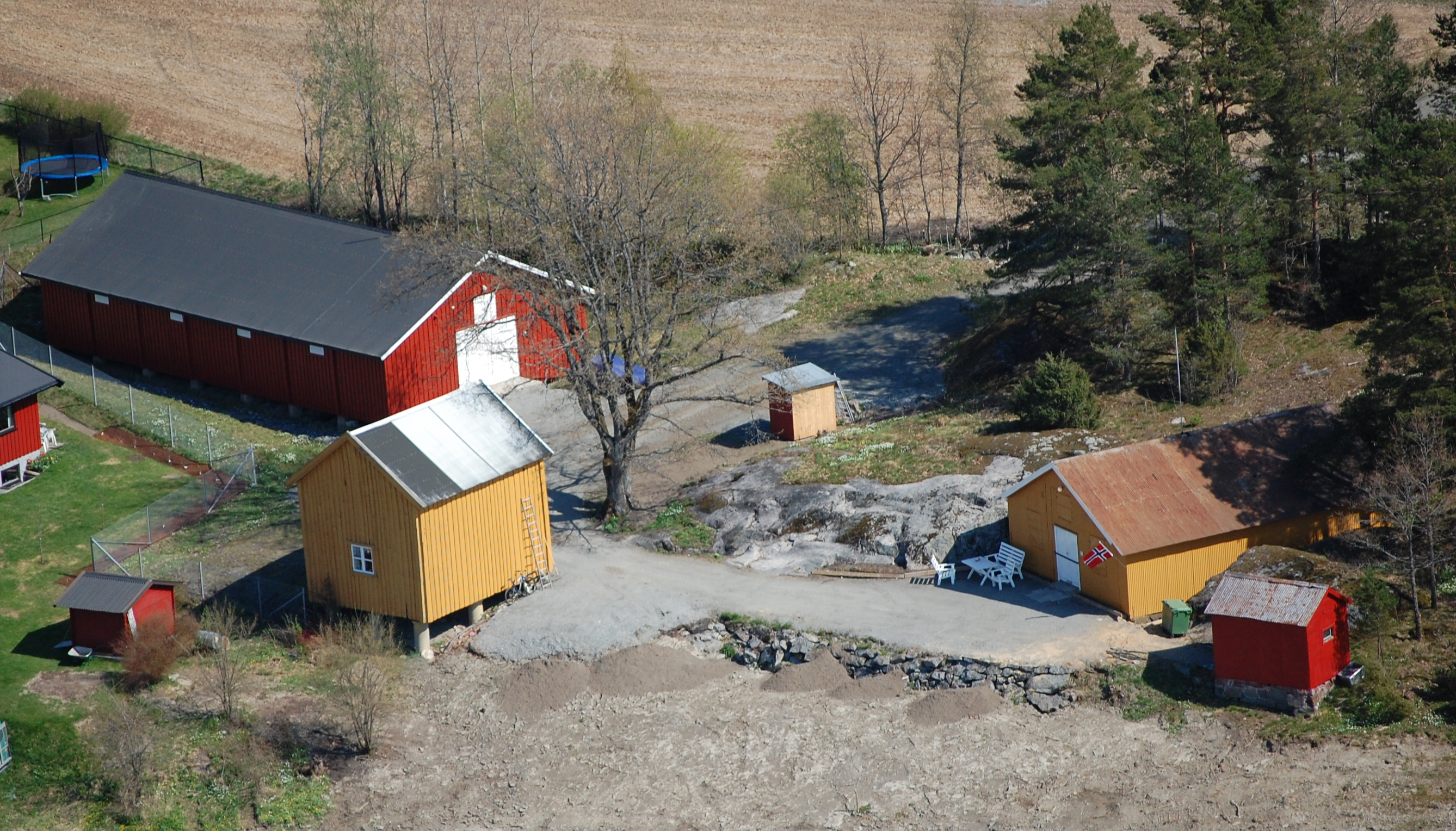 Store houses at Fetsund Battery, Norway